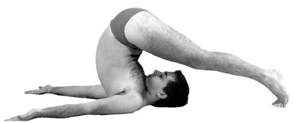 Rája Halásana